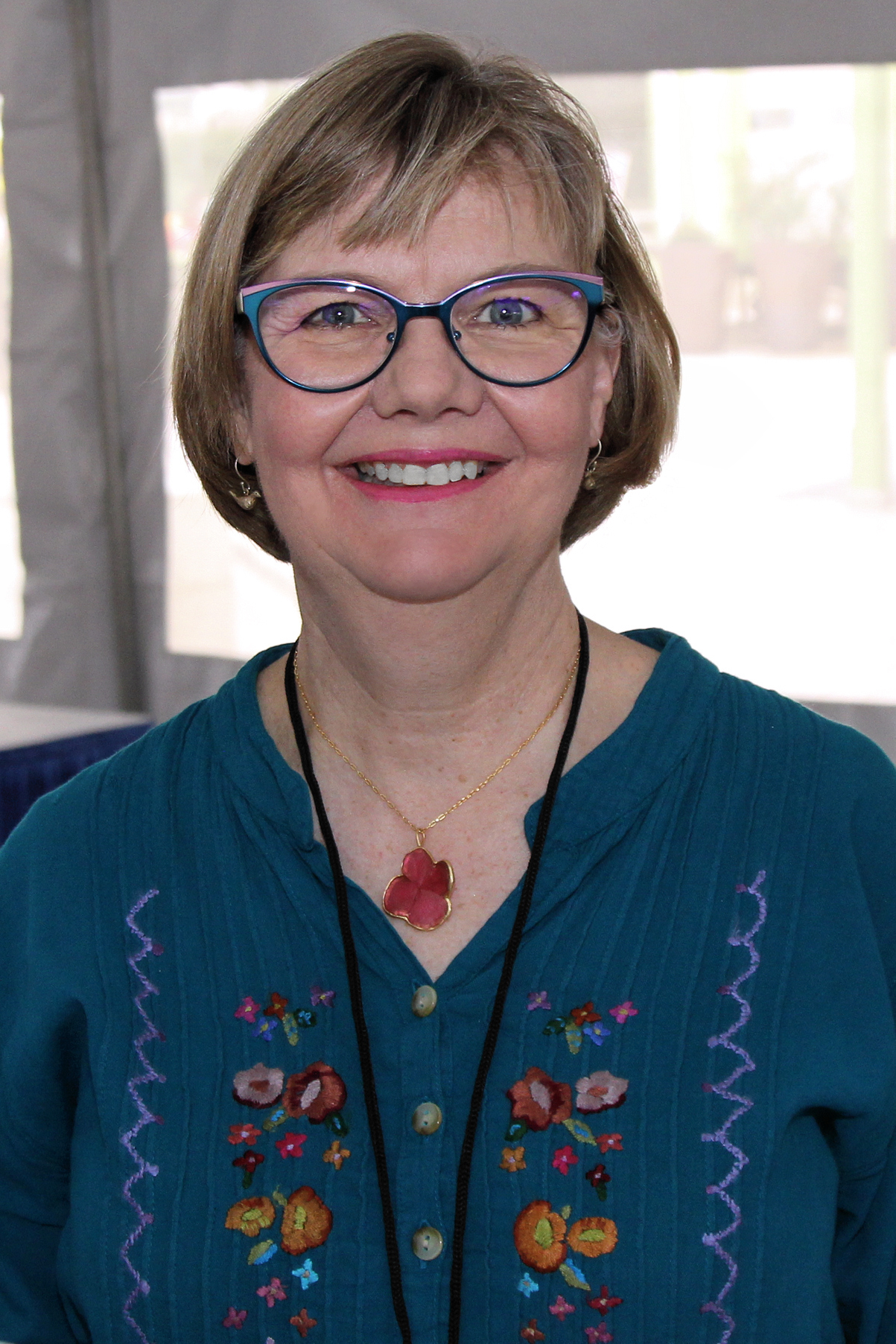 Author Kathi Appelt at the 2017 Texas Book Festival in Austin, Texas, United States.